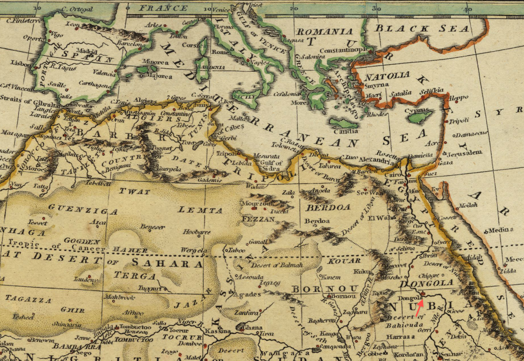 Detail of map: Africa, including the Mediterranean Author: Wilkinson, Robert Publisher: Wilkinson, Robert Date: 1808-1822